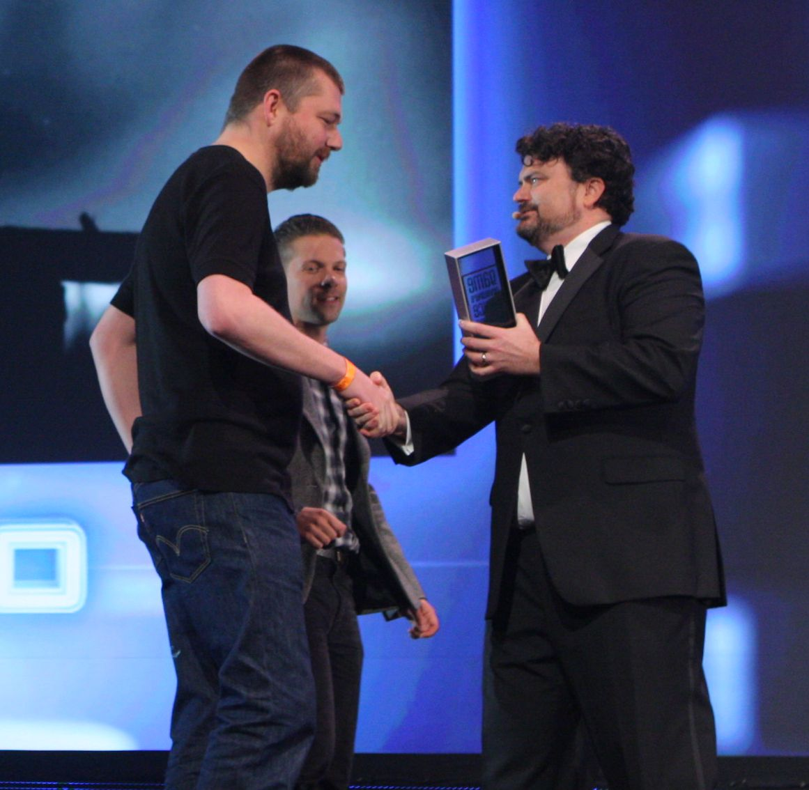 Hall D North Awards VIP Reception (BAEP)